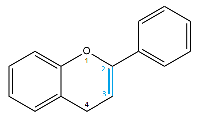 Chemical structure of a flavene